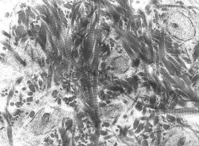 Woven bone matrix showing collagen fibrils.